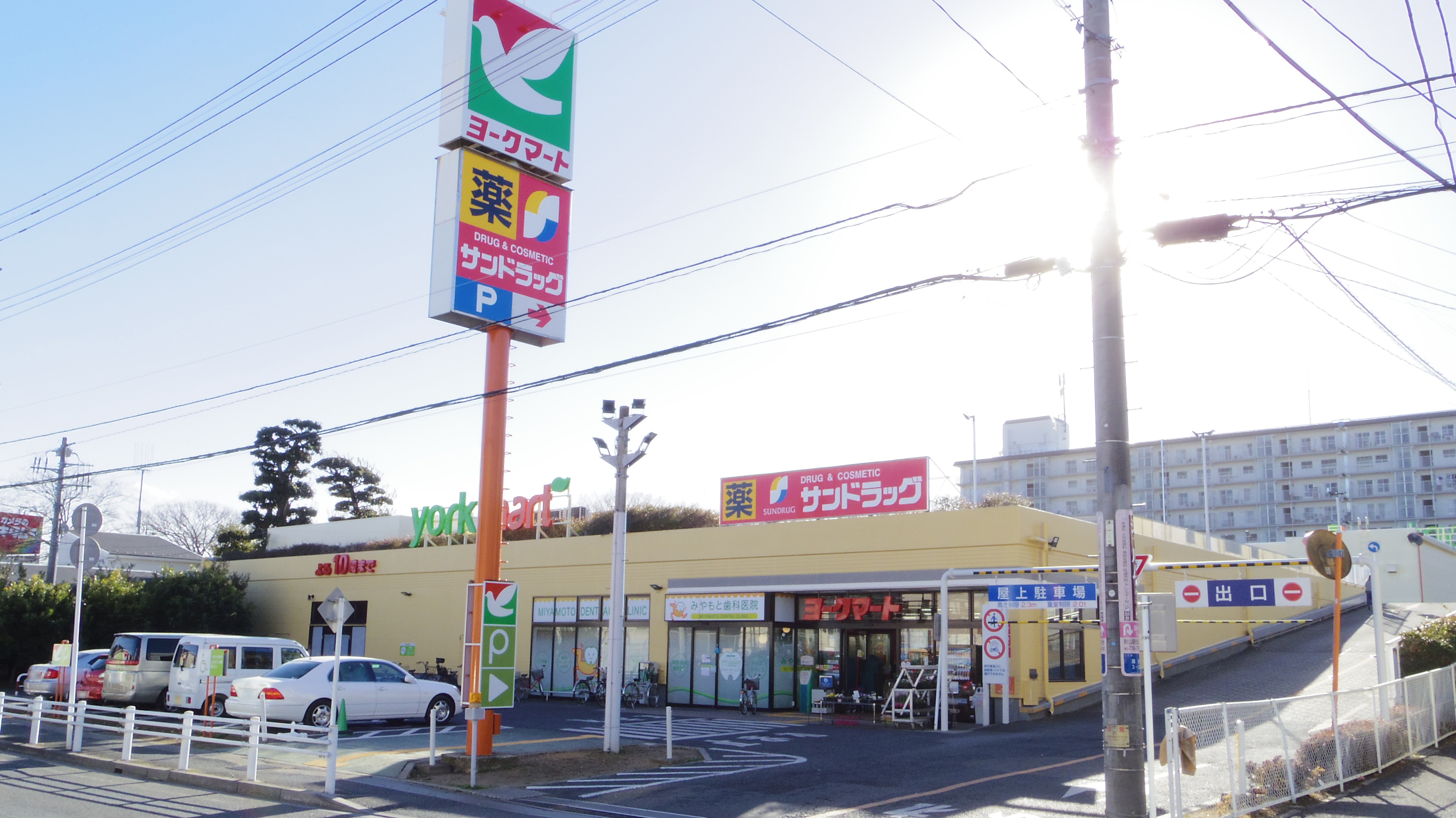 York Mart Fujiwara branch, Funabashi city, Chiba prefecture, Japan